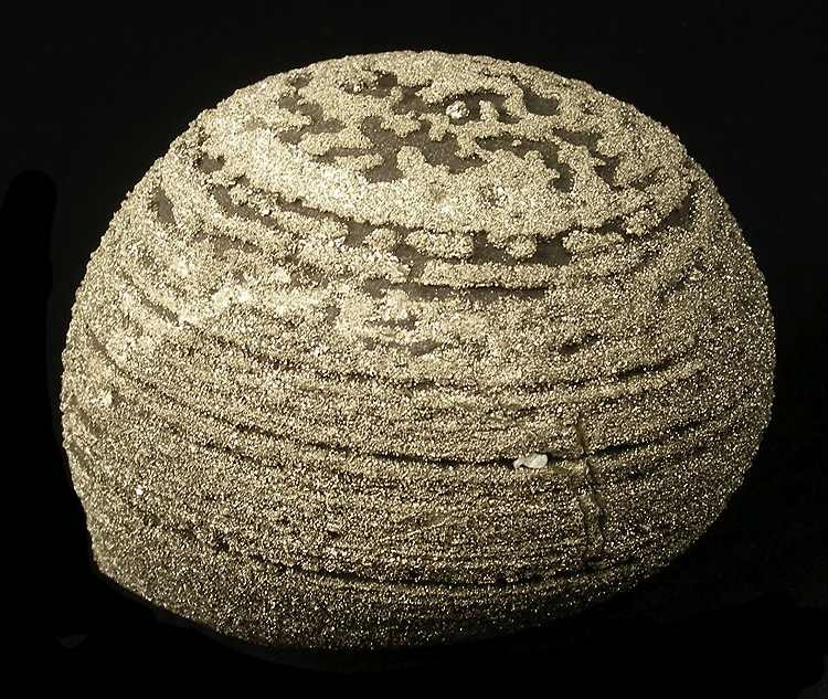 Pyrite Locality: Dongchuan District, Kunming Prefecture, Yunnan Province, China (Locality at ) Size: 7.6 x 6.8 x 6.0 cm. An amazing pyrite concretion from a new Chinese find. This striking ball of parallel bands of sparkly pyrite microcrystals and shale looks like a hand-woven basket or clay pot with a very intricate, stylized pattern on the "lid". A unique and very fine specimen.